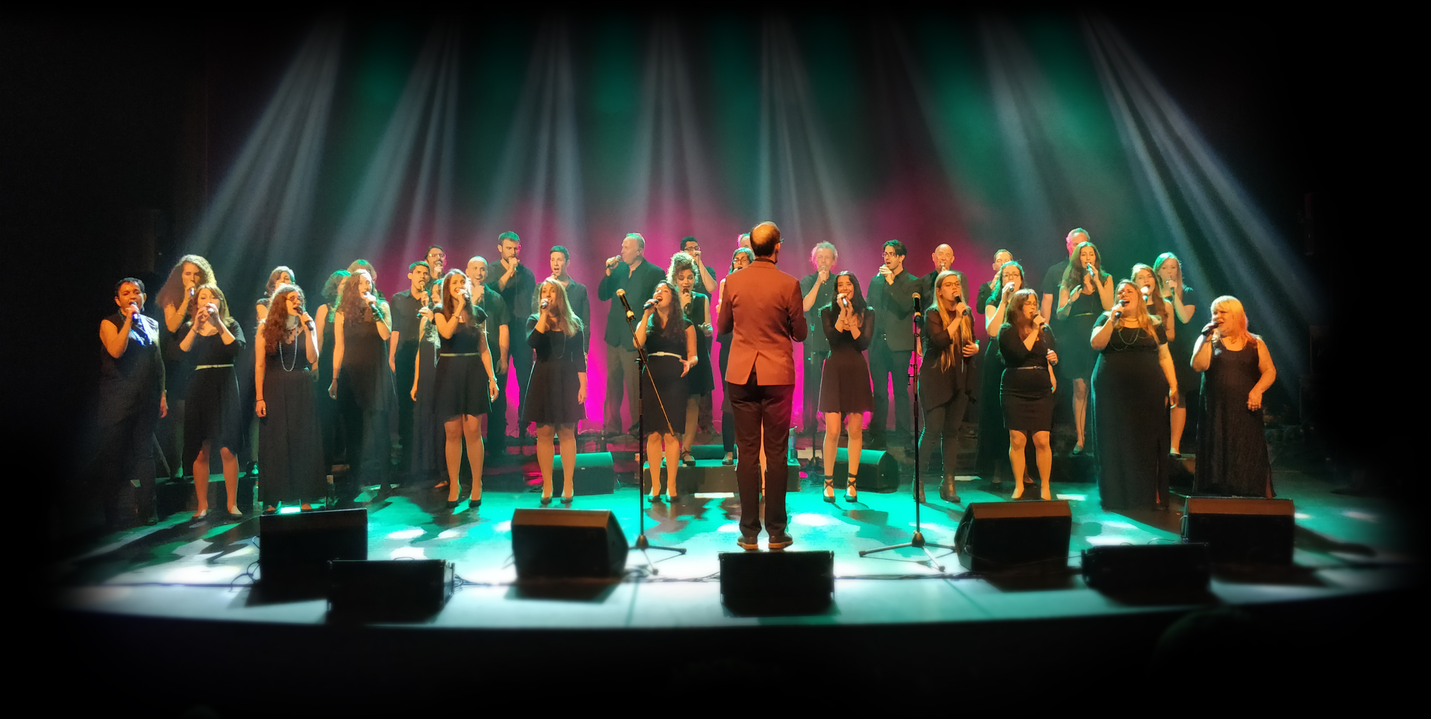 Vocalocity live on stage conducted by Kevin Fox